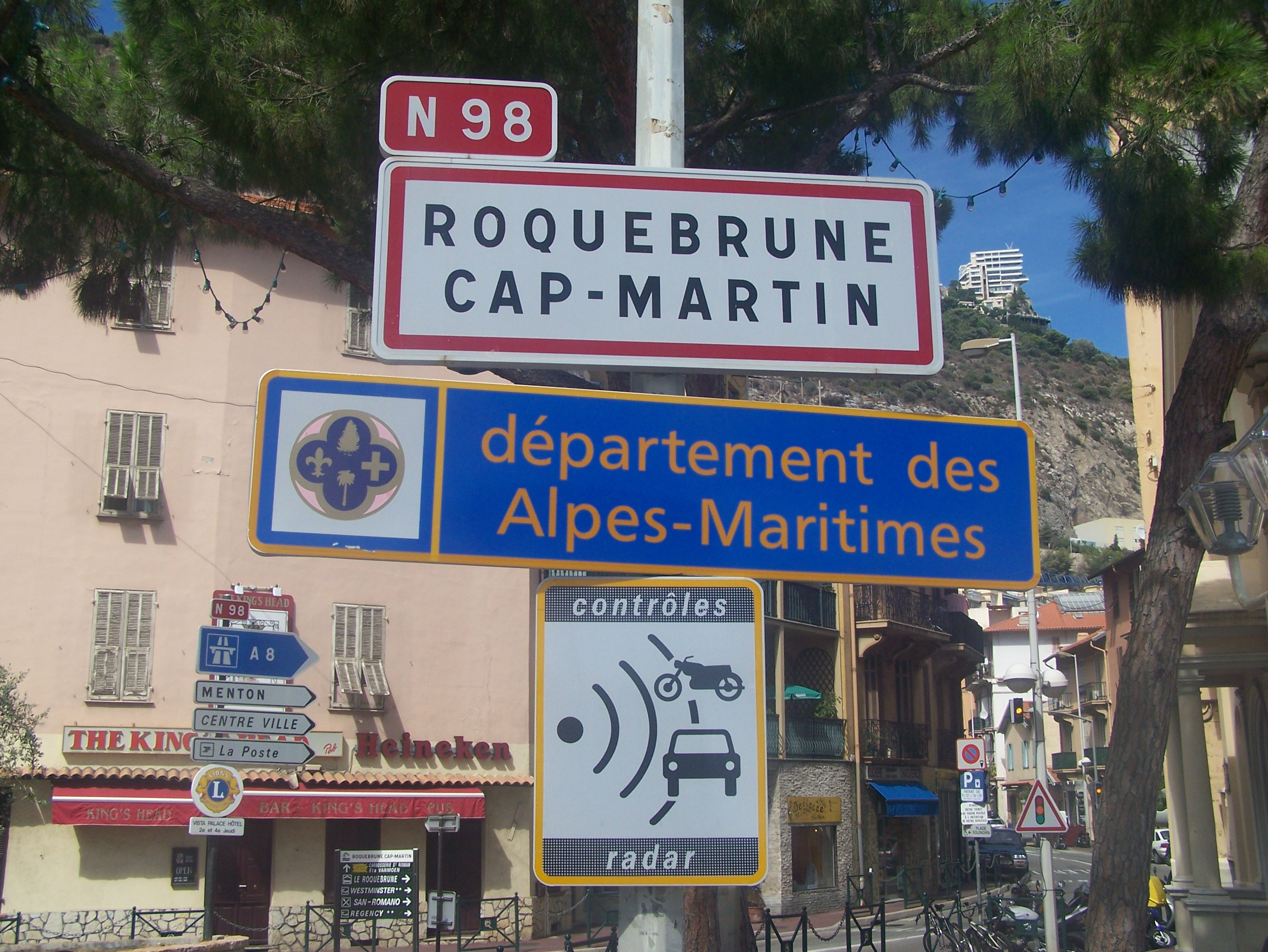 Road signs welcoming visitors to the French city of Roquebrune-Cap-Martin and department of Alpes-Maritimes when leaving Monaco.